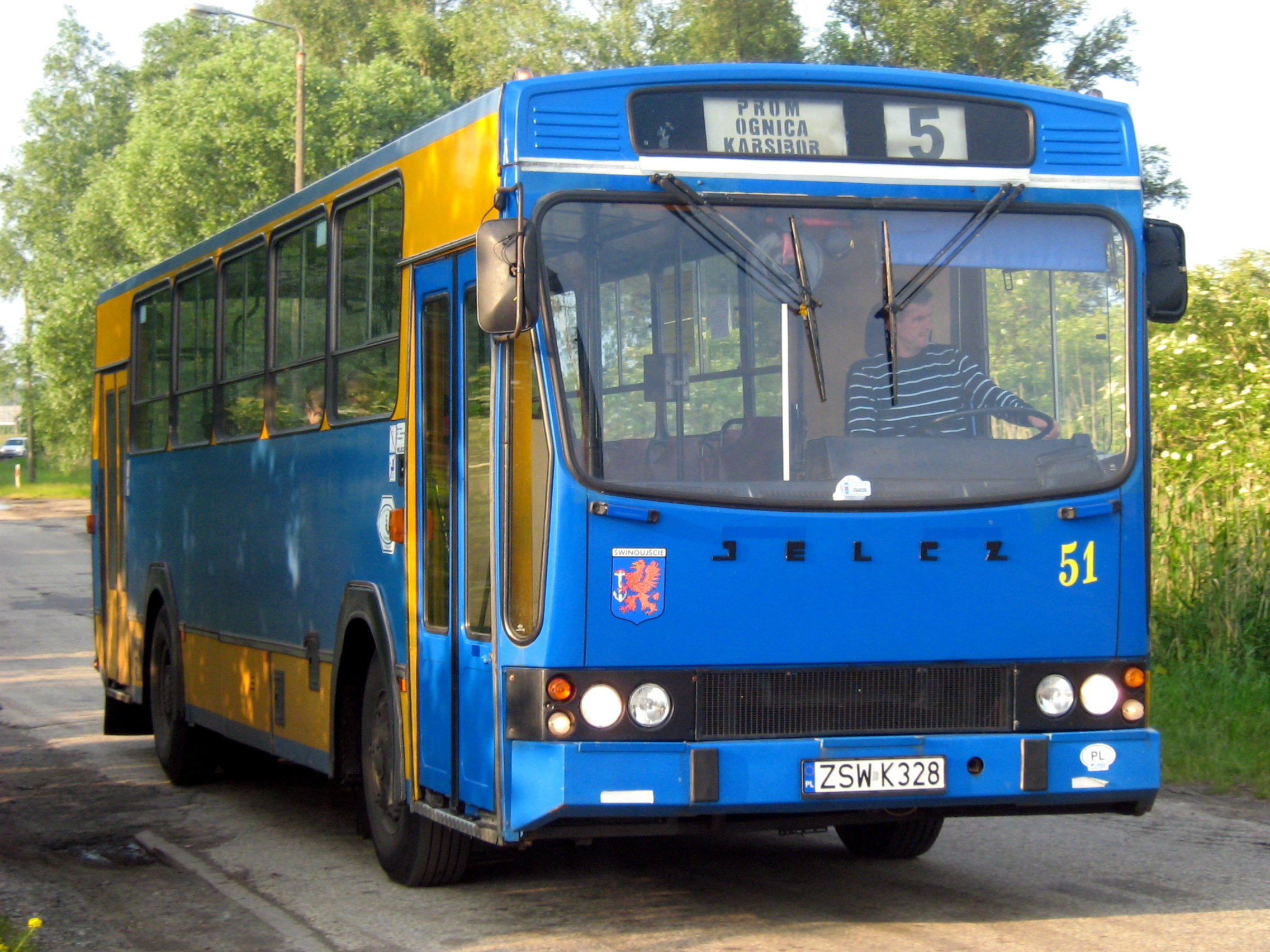 Jelcz L11/2 bus (#51, reg. ZSW K328) in Świnoujście, Poland. Built 1989, KA Świnoujście operator.